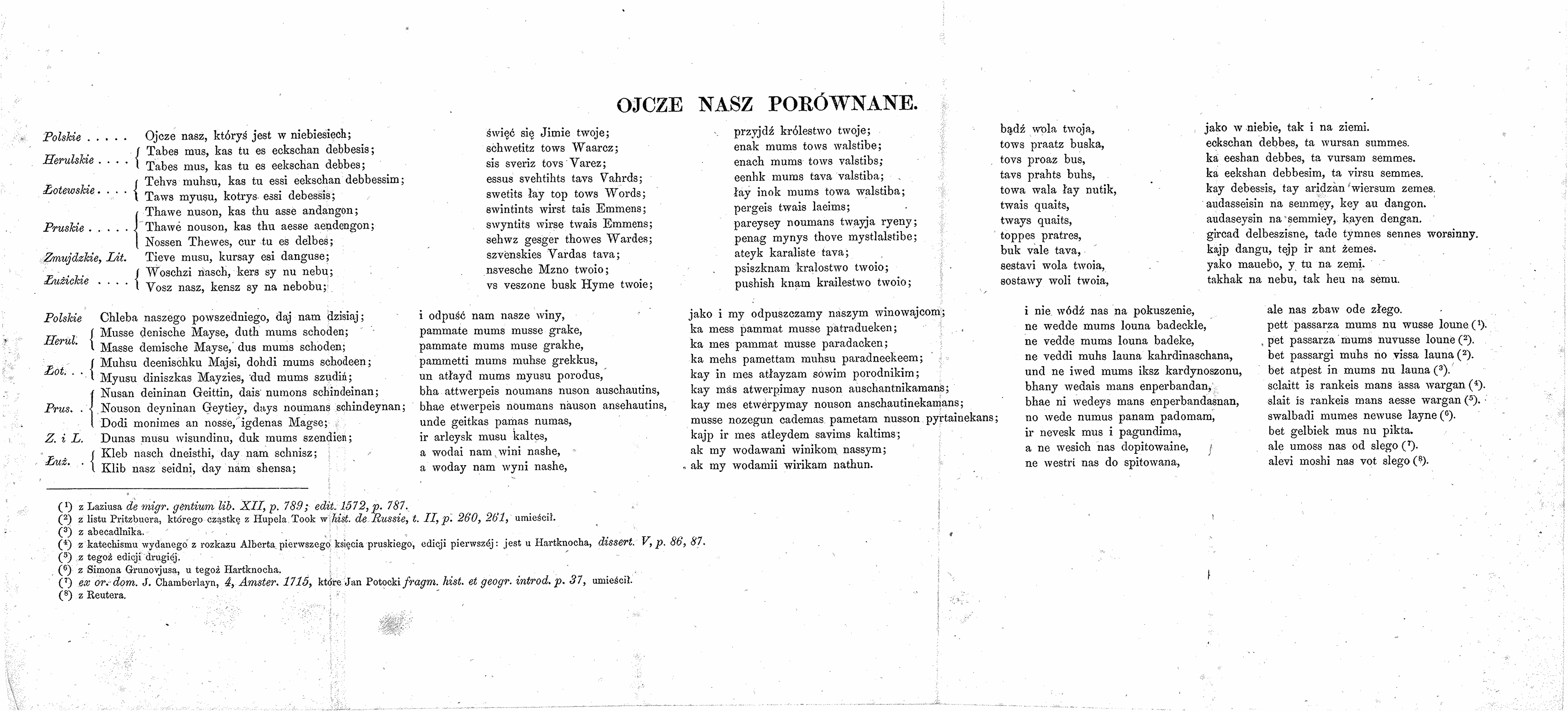 Lord's Prayer compared in Polish, Heruli, Latvian, Prussian, Samogitian, Lithuanian and Sorbian. Table from Joachim Lelewel's Narody na ziemiach słowiańskich (Nations of Slavic regions), Poznań 1853.